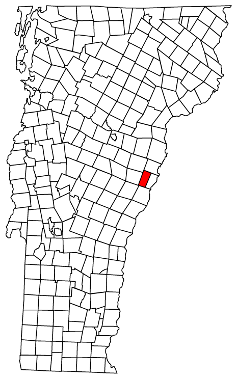 Map of Vermont towns with West Fairlee highlighted